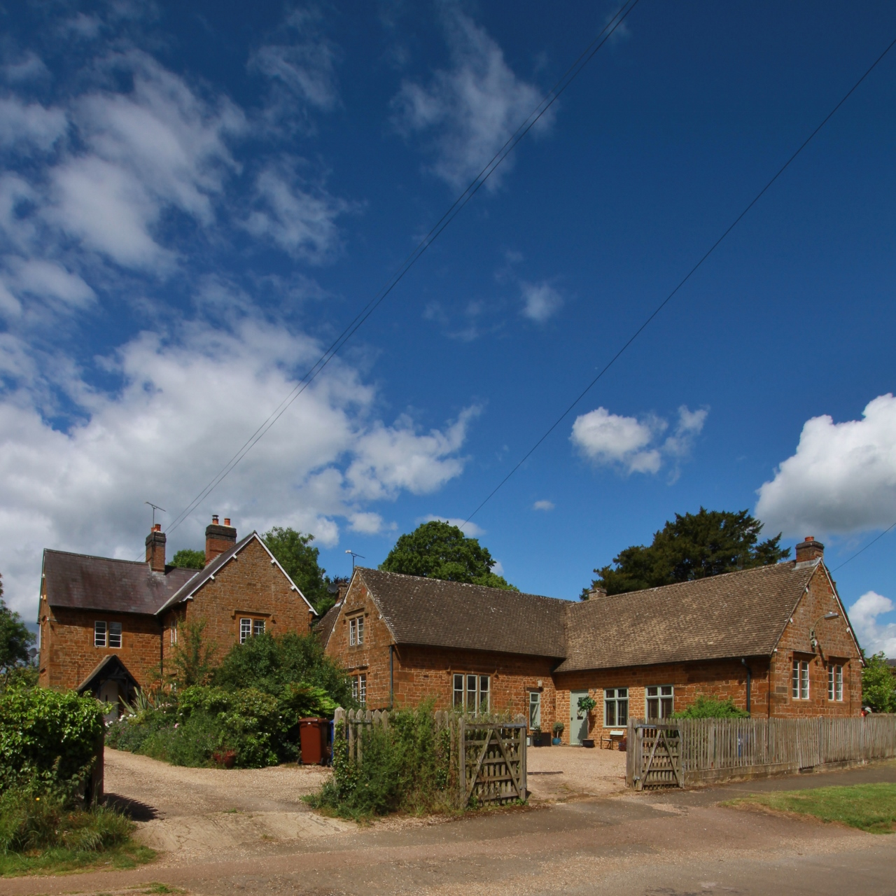 Former parish school (centre and right) and teacher's house (left) in Wardington, Oxfordshire, seen from the southeast